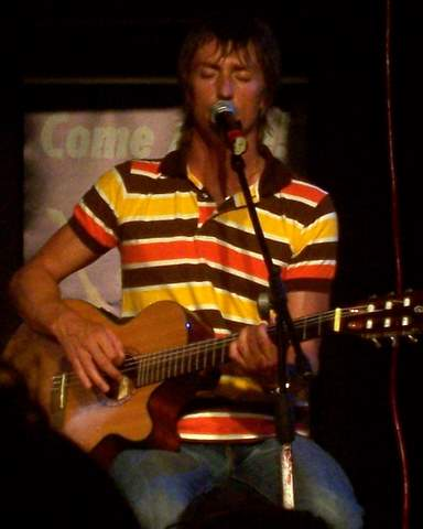 Mosselbay 2007, Taken by Minnaar Pieters.